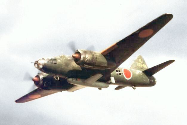 Mitsubishi G4M2E Model 24 Tei bomber from Kokutai 721 carrying an Ohka.